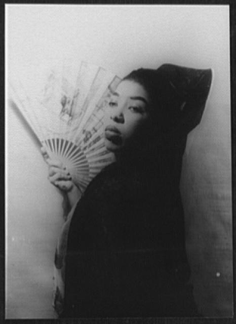 Title: Portrait of Debria Brown, as Carmen, Act IV Abstract: 1 photographic print : gelatin silver.